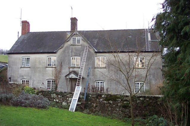 Tregeiriog House Tregeiriog Farmhouse needs a lot of work! Tregeiriog's last major renovation was in 1758. There has been a house known on this site since 1260 when it was owned by Gibert de Clare of Raglan Castle. The owner is interested to know more of the history of the house and its former occupants and collect photographs to make a portfolio on the house. Tregeirog is grade II listed and has a wealth of original features, history and local legend, including connections with Cromwell (apparently his cousin owned the house and he stayed here on occasions); Henry the 8th is reputed to have stayed here, and rumours that Charles II was also connected. It would be good to get some evidence on any of the rumours and perhaps advice on renovation. The owner is in the process of trying to develop the house to create a healing space and garden to help people get back in touch with nature and its healing qualities.